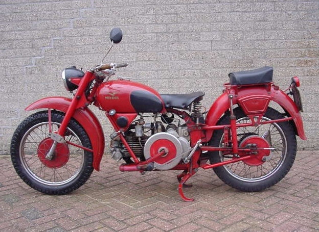 Moto Guzzi 500 cc motorcycle from 1952